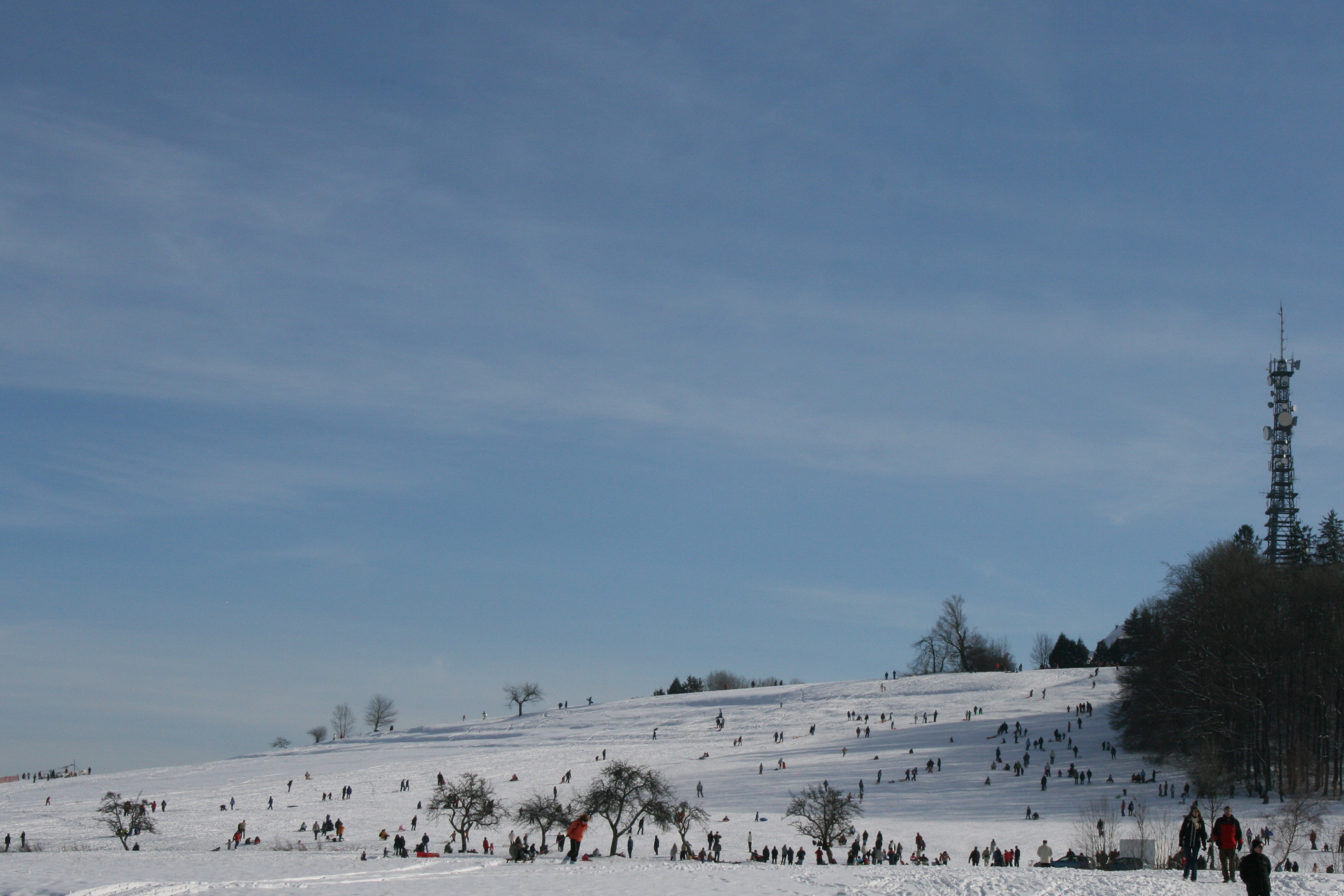 Winter sports at the Stocksberg in Löwenstein and Beilstein